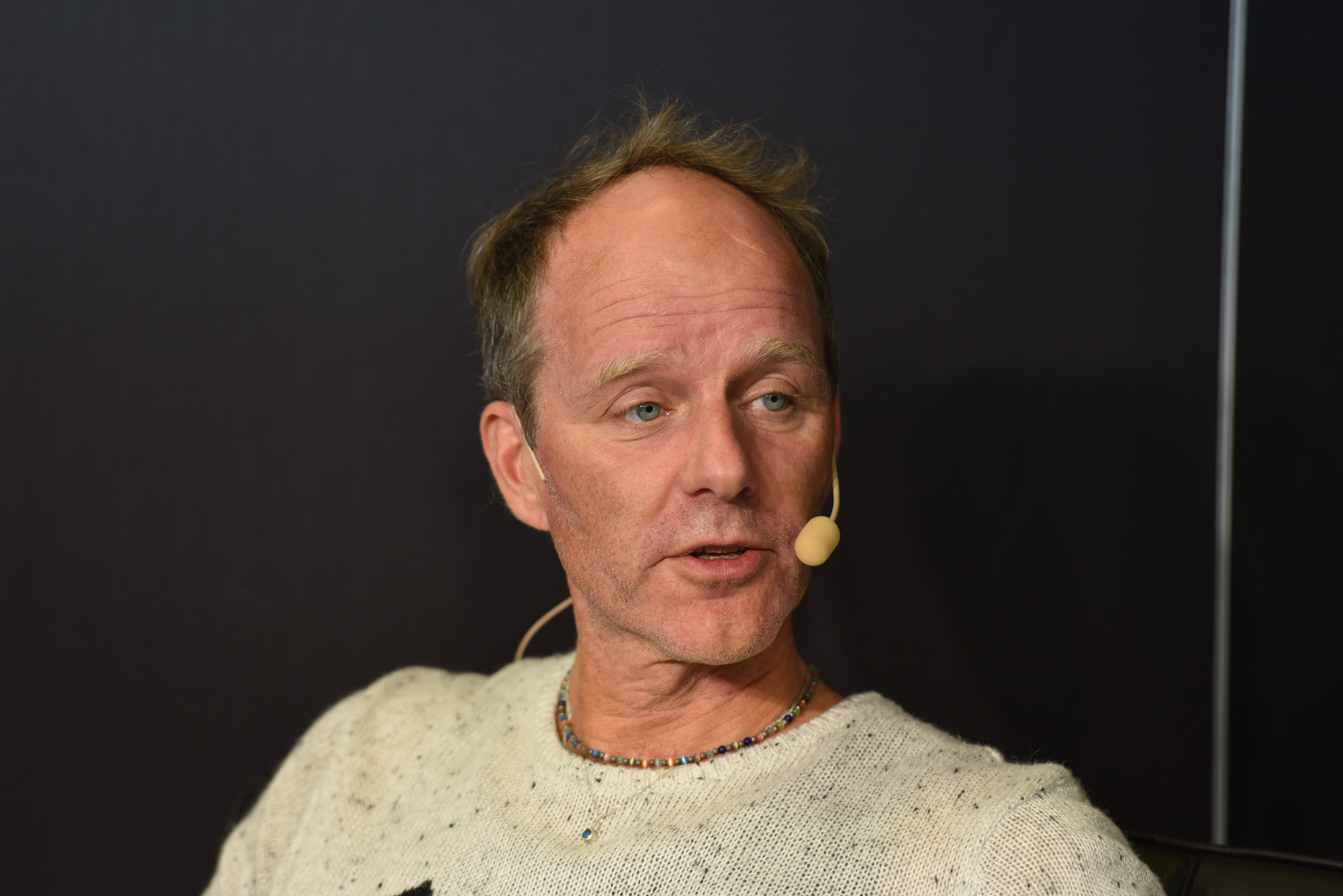 The Swedish writer John Ajvide Lindqvist at Göteborg Book Fair 2017.